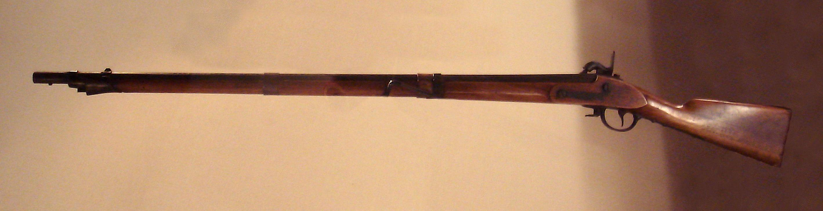 Similar to a another image but swapped it so the hammer and lockplate are on the right side.